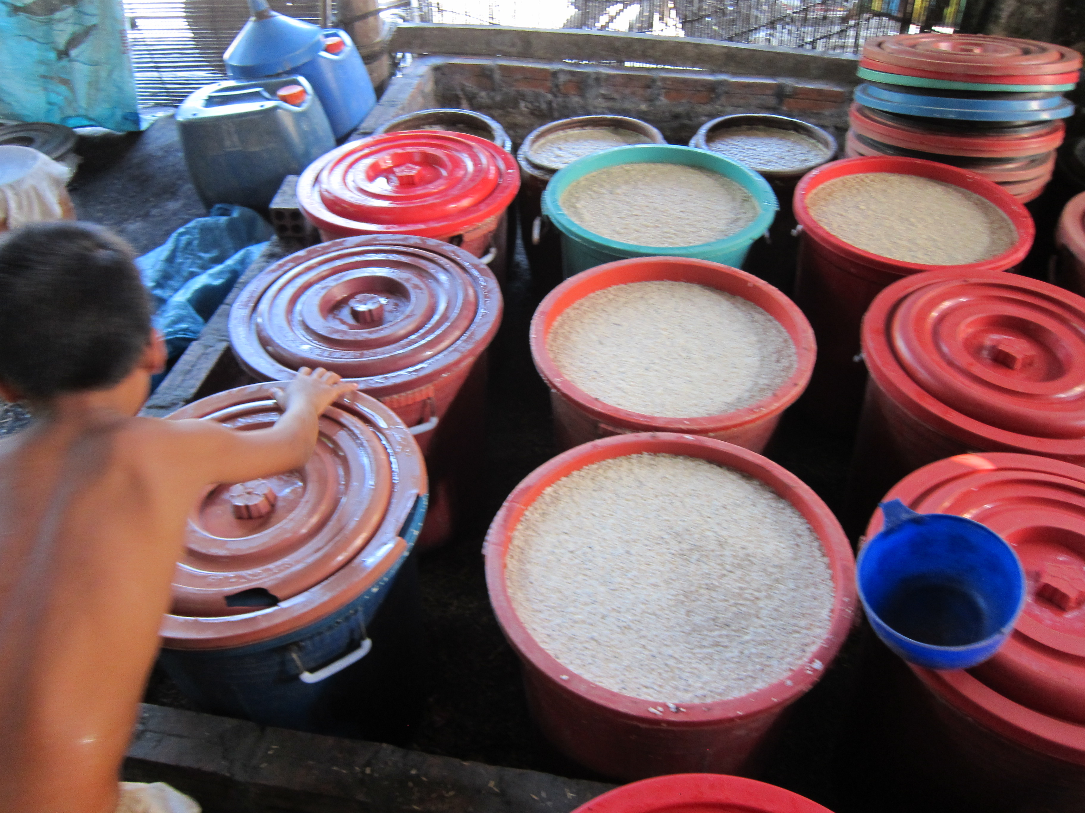 Rice wine production, Battambang, Cambodia 2012